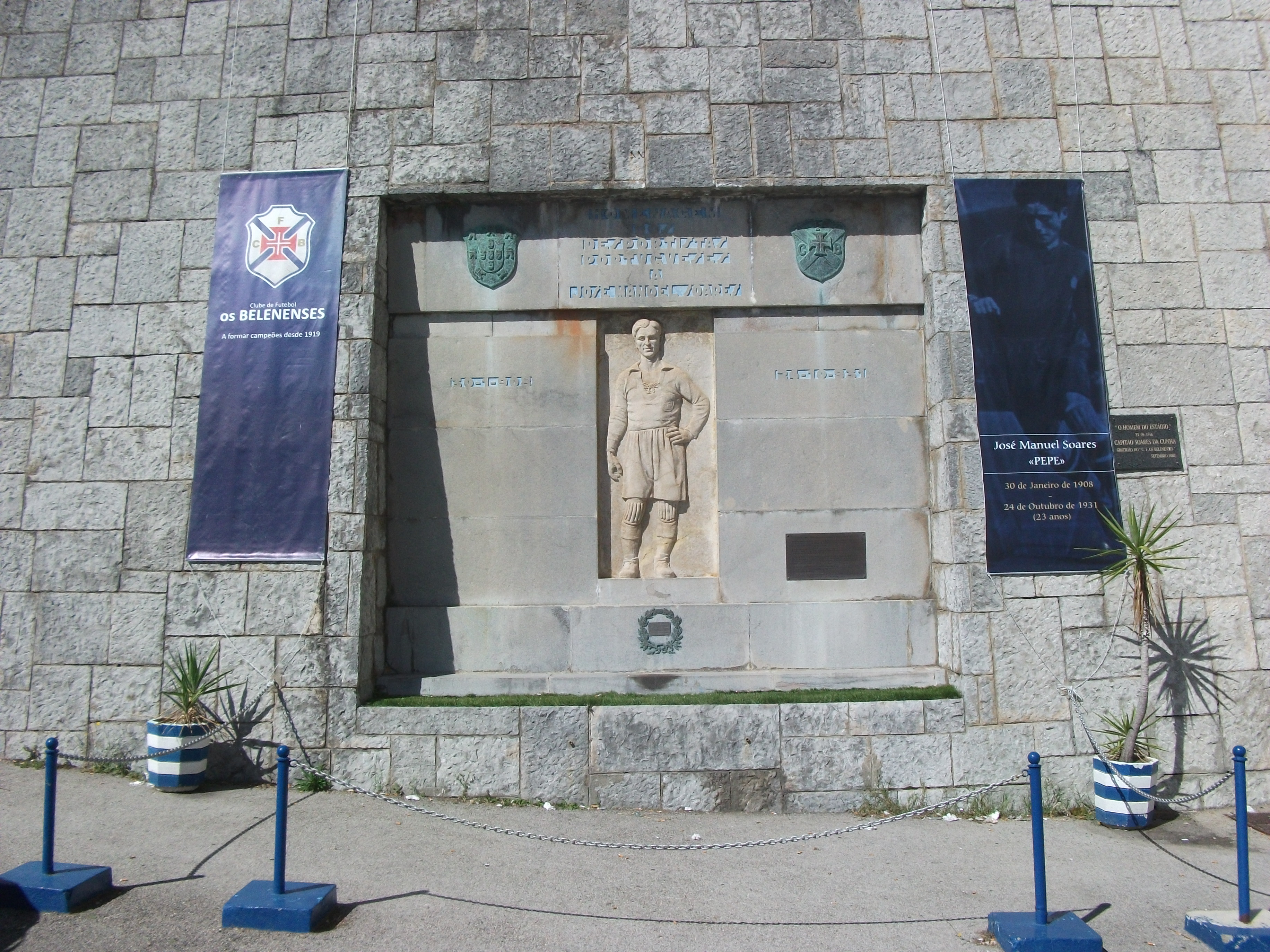 The statue of José Manuel Soares (Pepe) at the entrance to Belenenses' Restelo Stadium in Lisbon, Portugal.